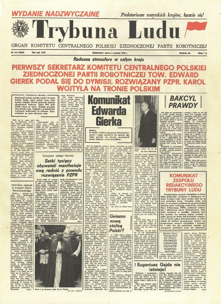 "Trybuna Ludu" - the false issue of the official newspaper of Polish United Workers' Party.